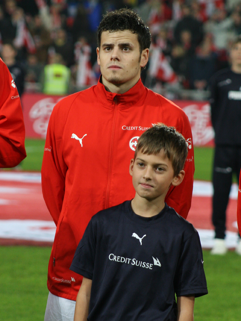 Tranquillo Barnetta, St. Jakob Stadion, Basel (Switzerland), Switzerland - Brasil 1:2